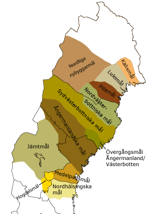 Categorization of dialects in Northern Sweden, according to Karl-Hampus Dahlstedt and Per-Uno Ågren (1954): Övre Norrlands bygdemål.